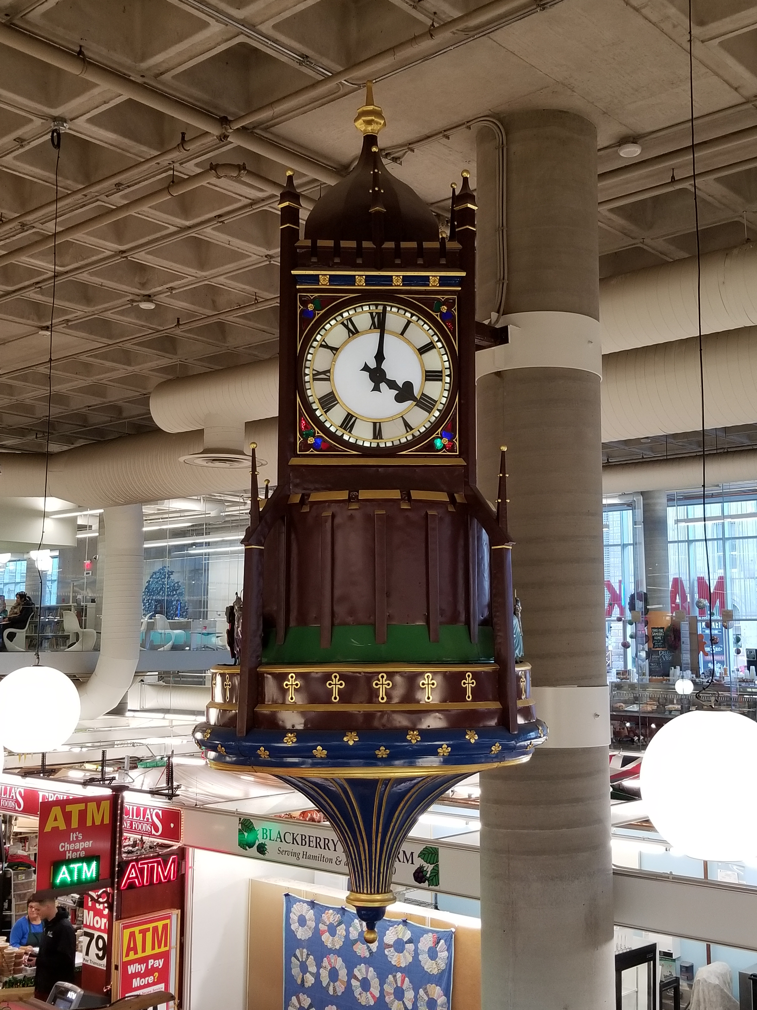 The Clock Of The Charging Horsemen, also known as the Birks Clock, located at the Hamilton Farmers' Market in Hamilton, Ontario, Canada. Built in 1930, the clock was originally located on the Birks Building at the corner of King and James Streets. After several relocations, the clock's current and permanent home is now the Hamilton Farmers' Market. Every 15 minutes, the miniature knights joust as they rotate around the clock's base. The clock also chimes and plays music. The clock sounds very similar to a carillon.